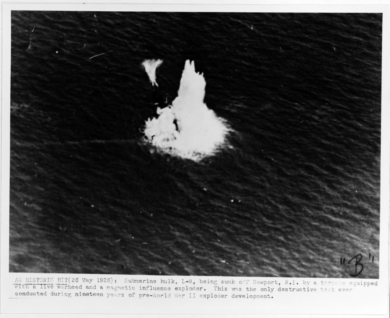 1926 Test of Mark 6 exploder prototype